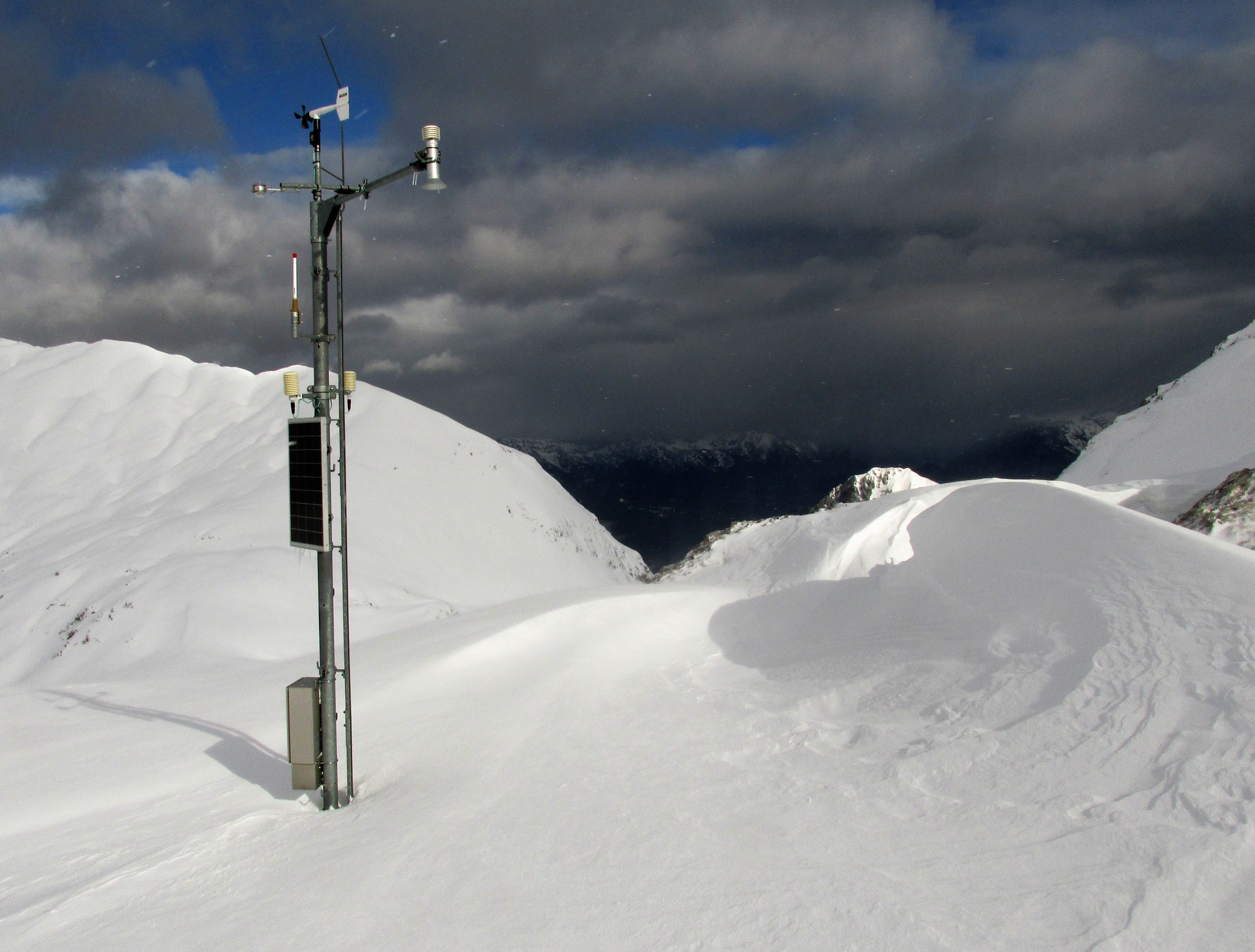 A remote controlled ultrasonic snow gauge encountered during the first part of the "Große Reibn" in the Berchtesgaden Area